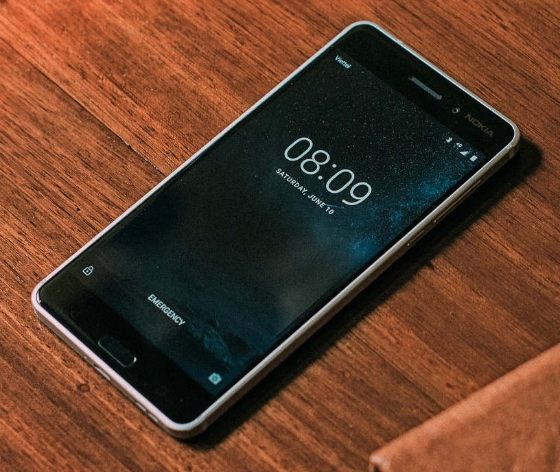 Nokia 6